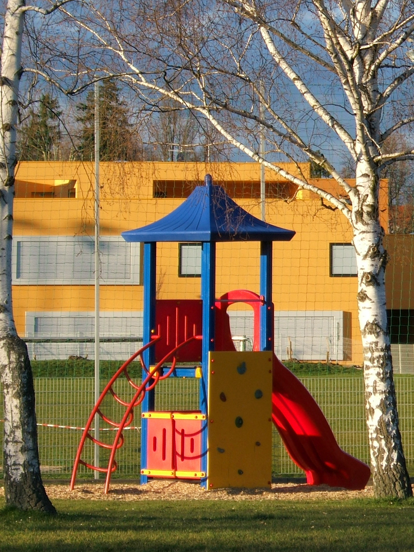 Playground in Winnenden, Germany